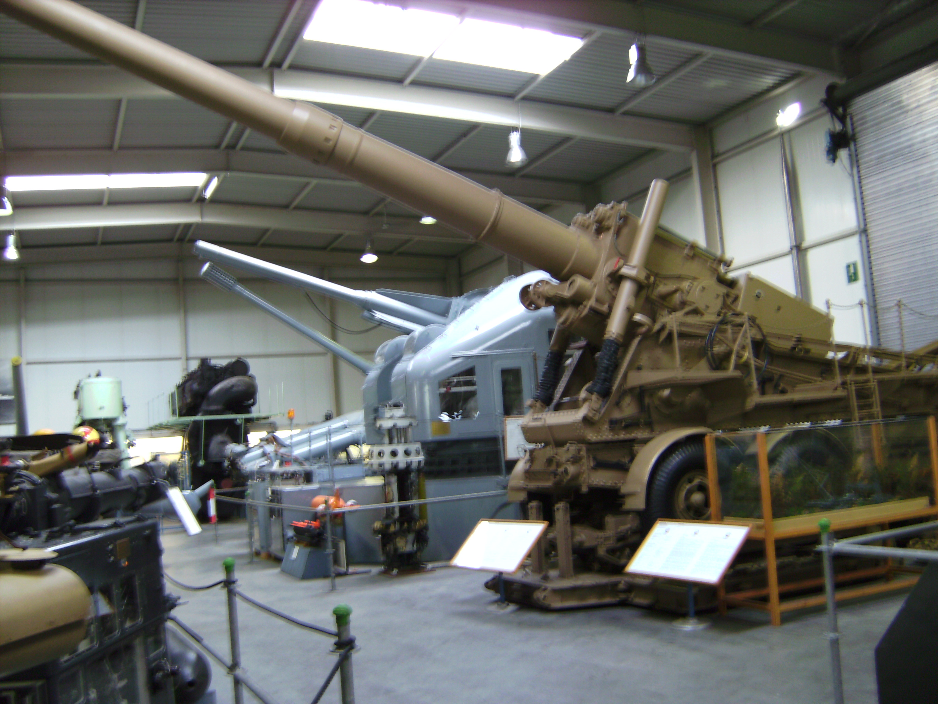 photography of a 24 cm Kanone 3, a German heavy siege gun used in the Second World War